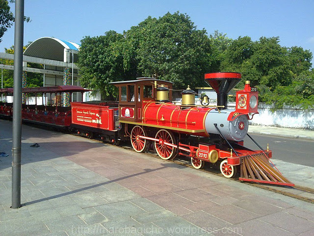 Atal Express, Kankaria Lake, Ahmedabadગુજરાતી: અટલ એક્ષપેસ, ટ્રેન, કાંકરીયા તળાવ, અમદાવાદ.